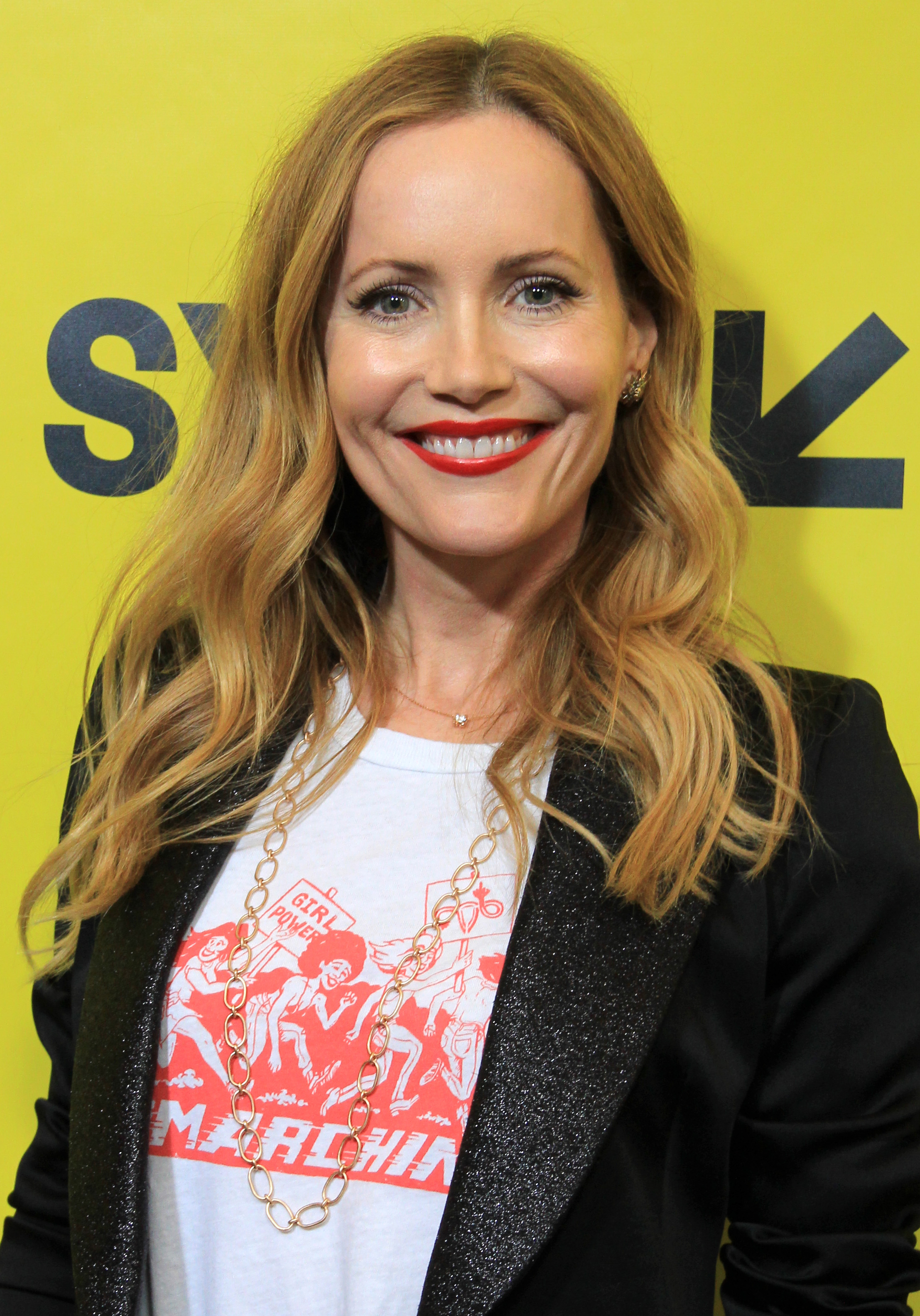 Leslie Mann at SXSW Red Carpet premiere of BLOCKERS